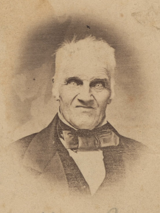 Photograph of Joseph Bloor from a book.